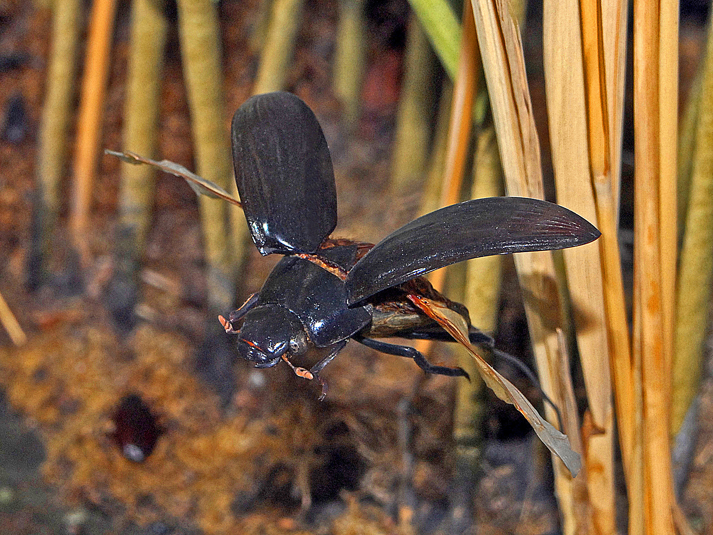 Hydrophilus piceus in flight. Mounted specimen on display at the Museo Civico di Storia Naturale di Milano